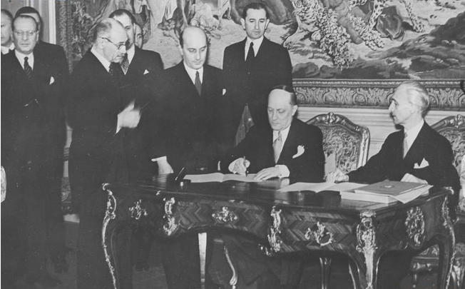 Foreign Ministers Aleksandar Cincar-Marković and László Bárdossy signed the Treaty of Eternal Friendship between Yugoslavia and Hungary on 14 March 1941 in Budapest. Hungarian Prime Minister Pál Teleki (with glasses) is on the left. Some weeks later, on March 26, 1941, that Yugoslav government was overthrown by a pro-Western regime.